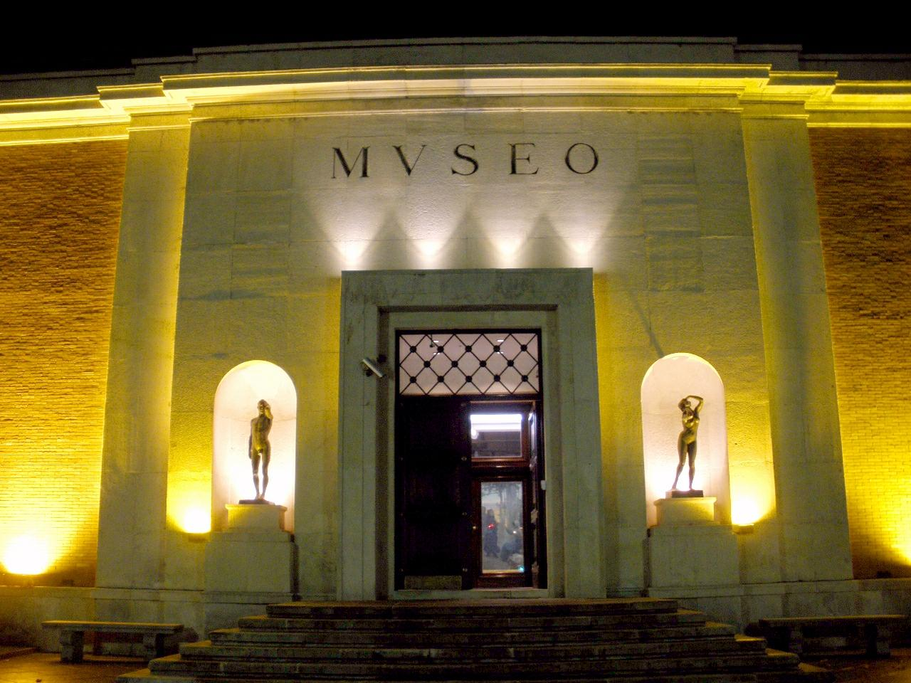 Museo de Bellas Artes de Bilbao (País Vasco, España)